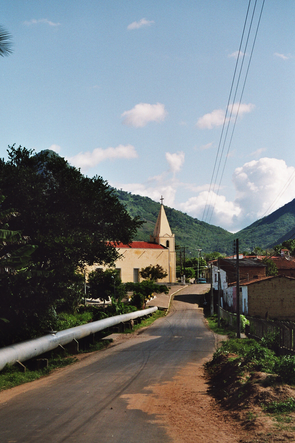 Itacima-Guaiúba